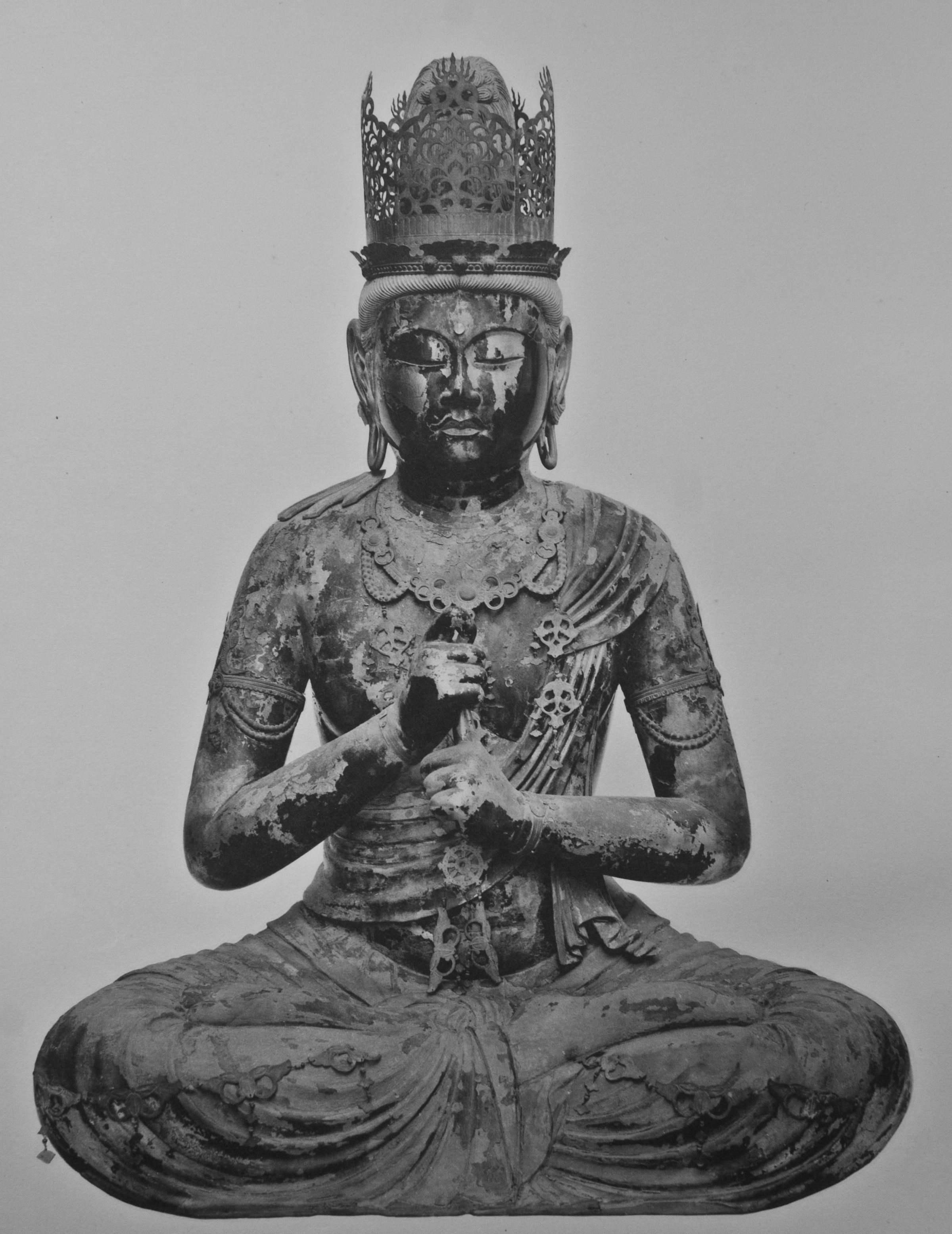 Enjoji, Nara, Japan